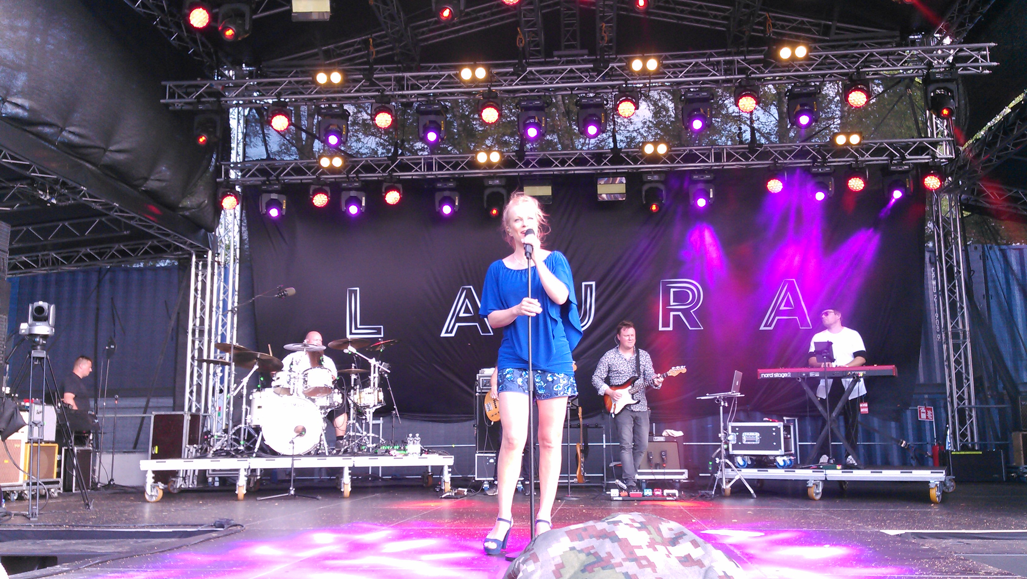 Laura Voutilainen at the Down By The Laituri Festival in Turku, Finnland, July 28, 2018